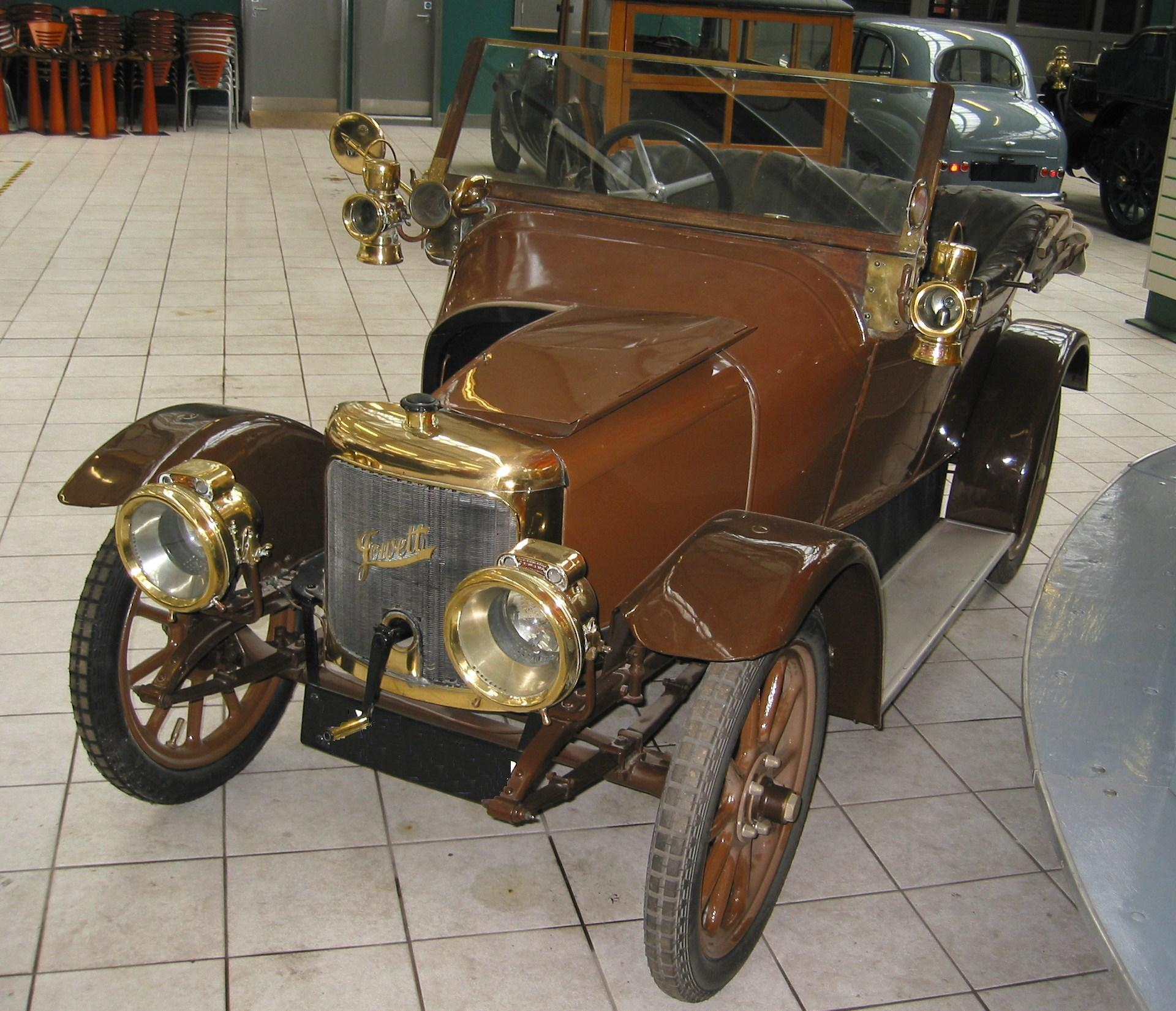 Jowett ca. 1914